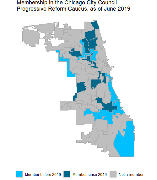 Map of wards in Chicago City Council whose aldermen are members of the Progressive Reform Caucus, as of June 2019.